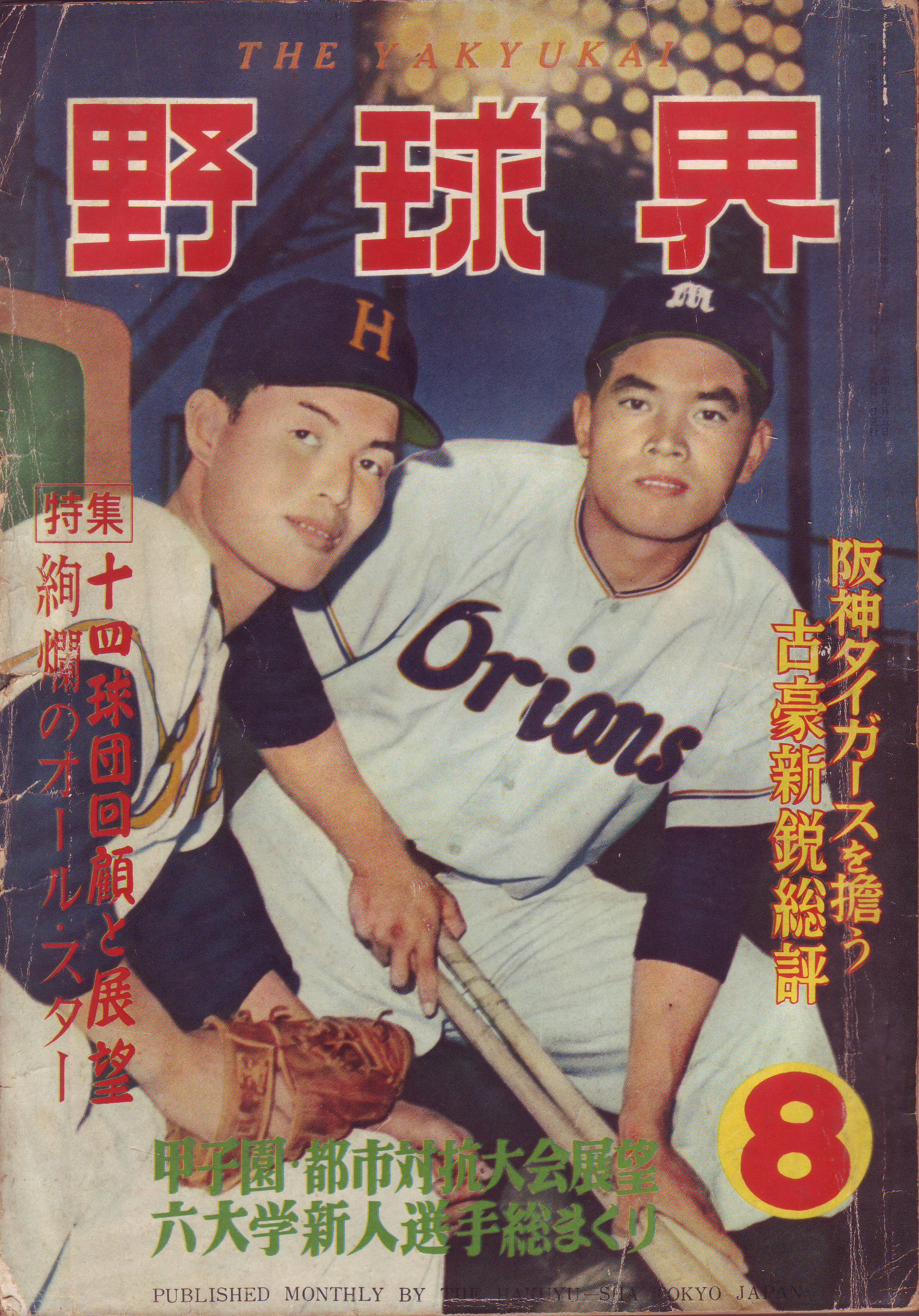 Magazine Cover from THE YAKYUKAI (Baseball) " August 1956 Issue, Hakuyu-sha Co., Ltd., 1956 Cover of a person, and Kazuhiro Yamauchi.